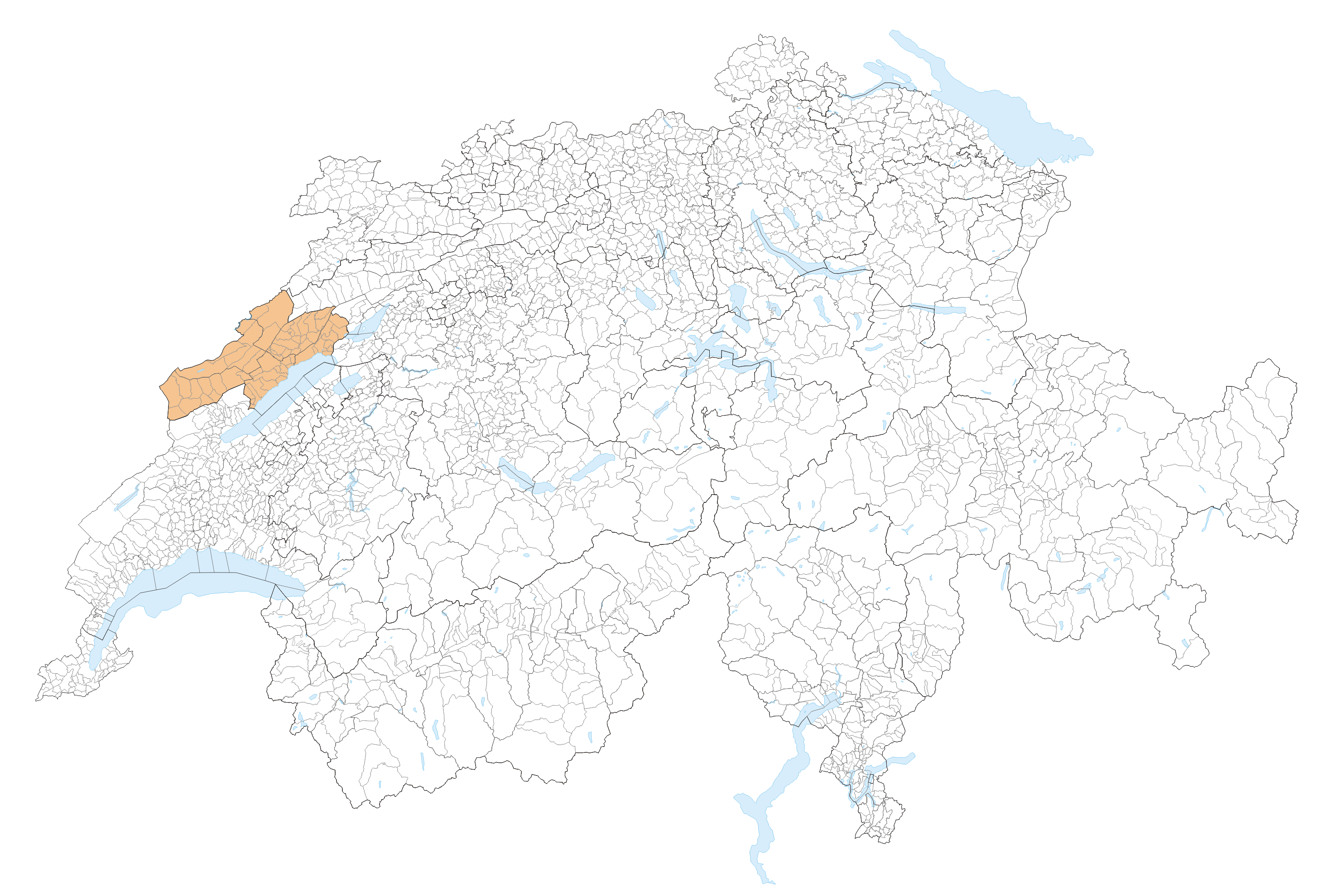 Kanton Neuenburg